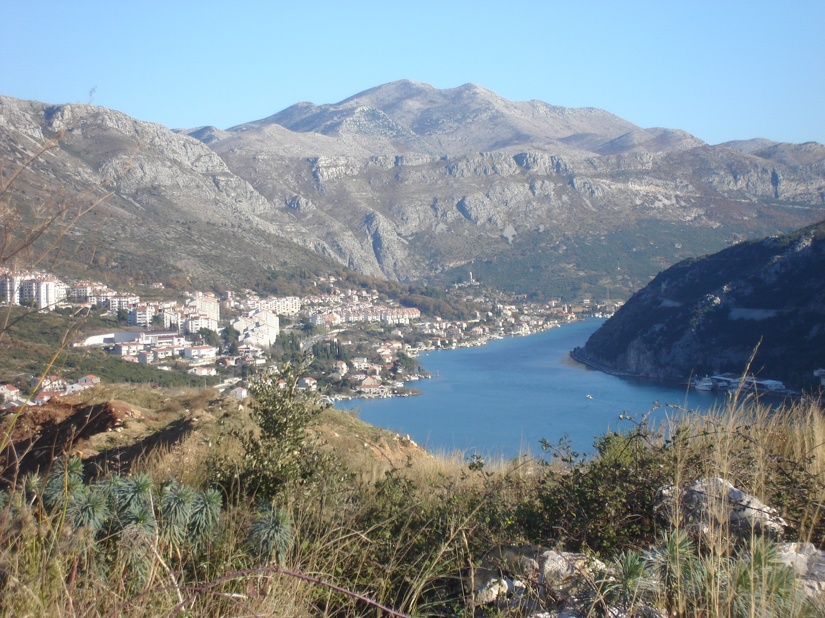 Mokošica near Dubrovnik and Mount Vlaštica